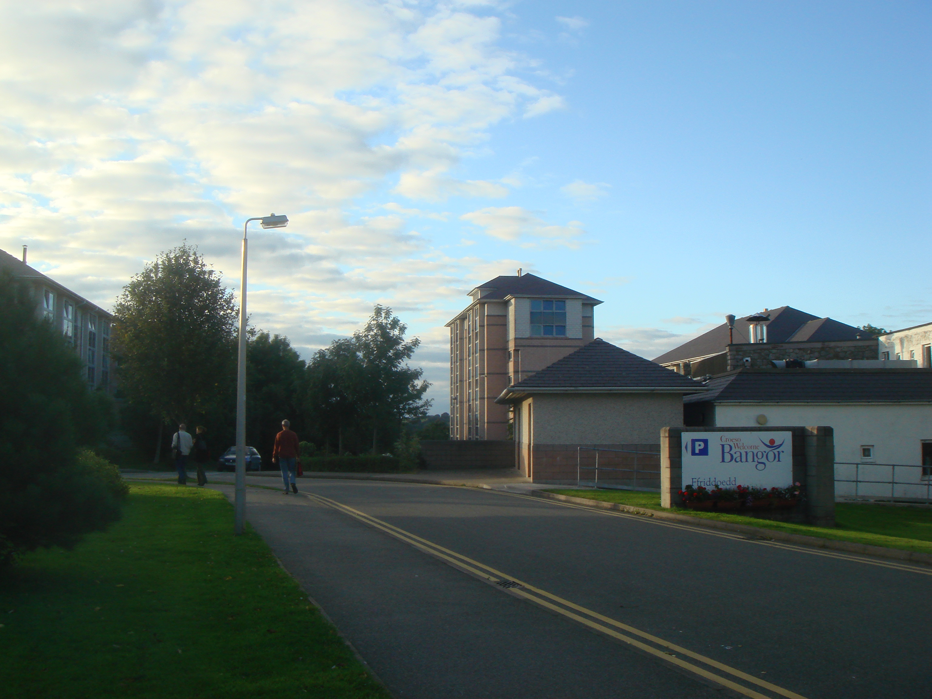 Entrance to the Ffriddoedd halls of residence site at Bangor University, Bangor Gwynedd.